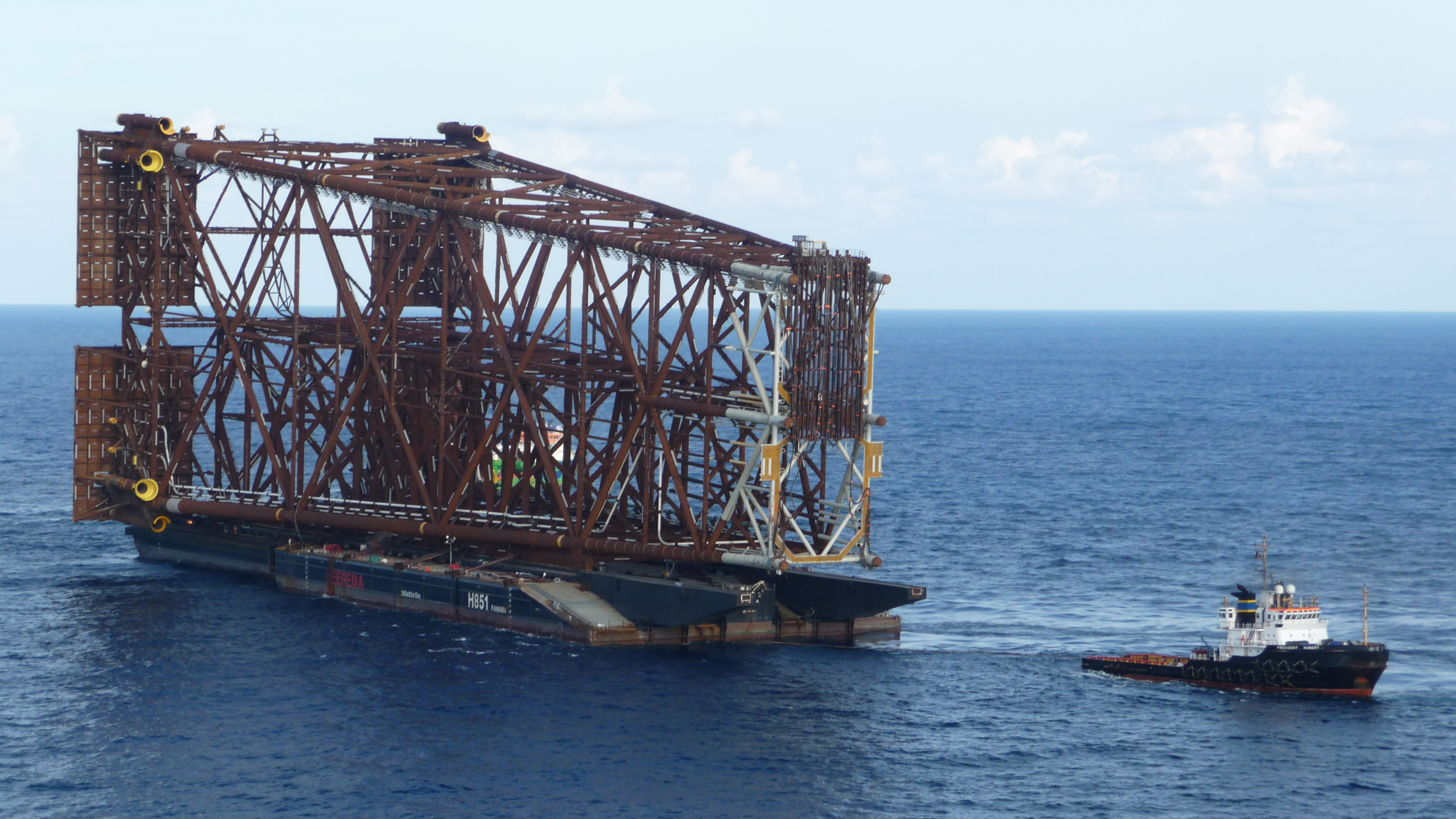 Tamar jacket on barge H851 with President Hubert on main bridle